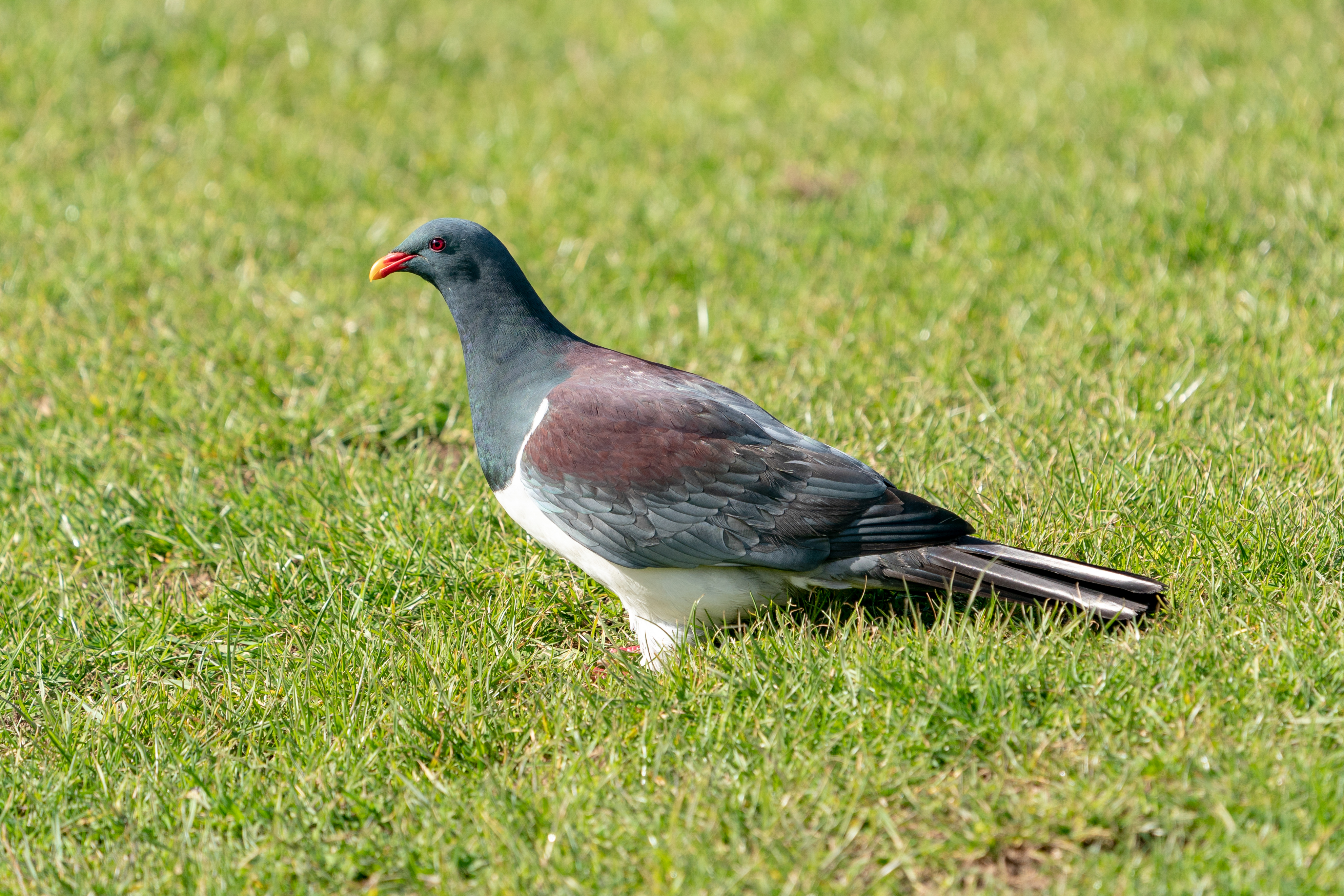 Parea or Chatham Island pigeon (Hemiphaga chathamensis) seen in Awatotara Parea Reserve foraging in farmland